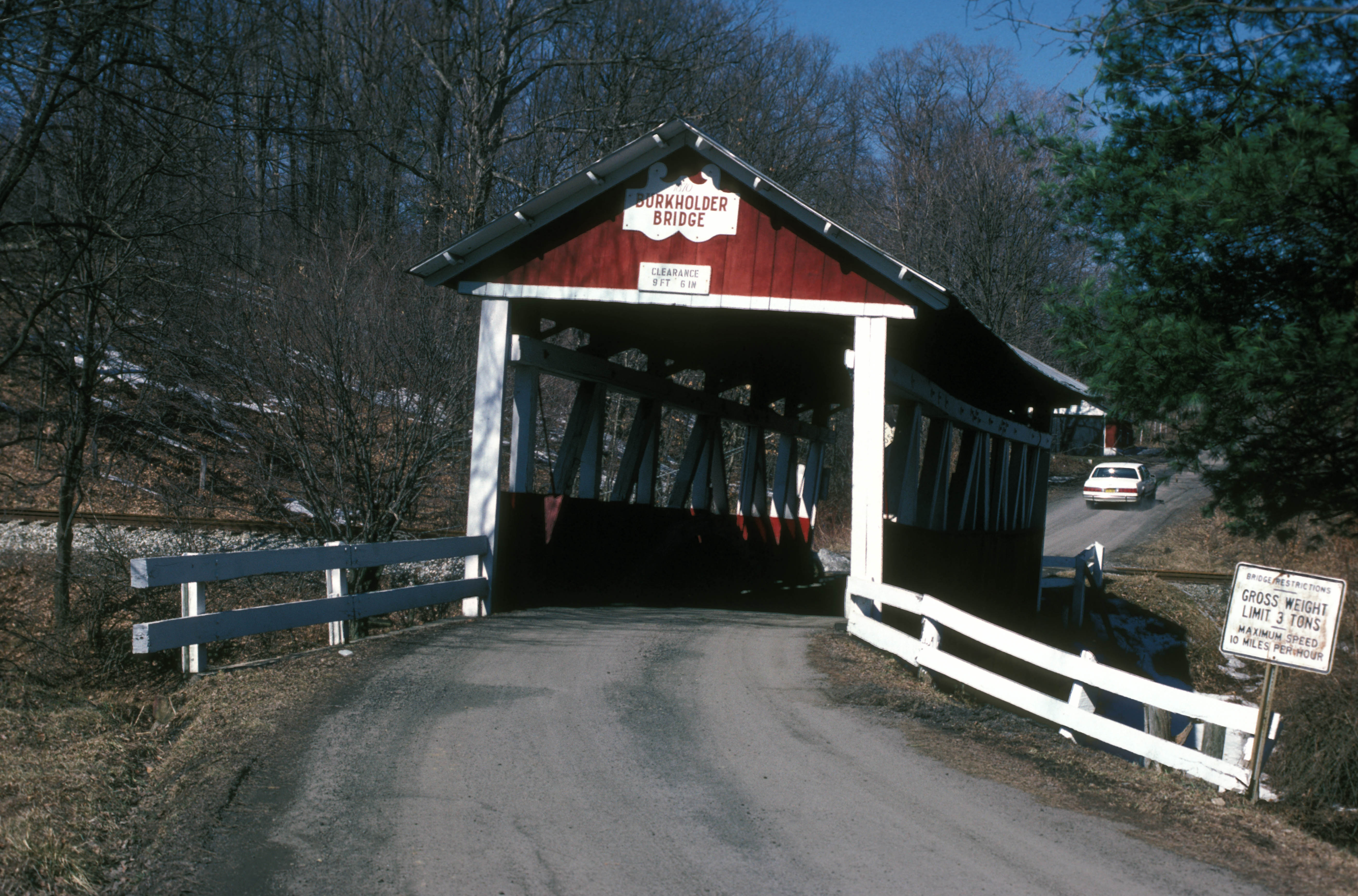 BURKHOLDER/BEECHDALE COVERED BRIDGE OVER BUFFALO CREEK; 1870, 52’ BURR